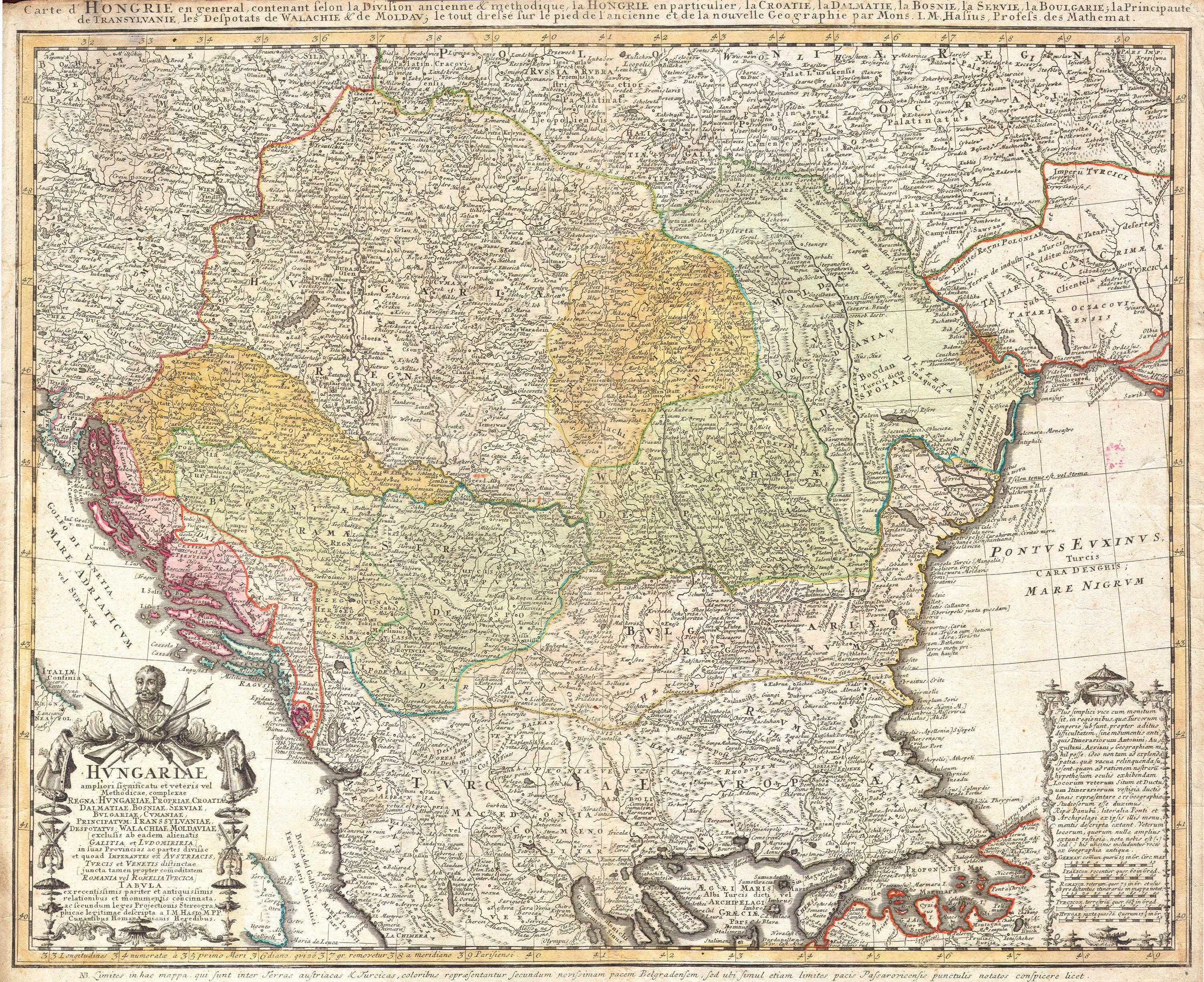 A stunning 1752 Homann Heirs hand colored map of Hungary, northern Greece, and the Balkans. Expansive view of the region which covers modern day Hungary, Croatia, Macedonia, Albania, the Slav republics and Romania south to the northern parts of Greece, bounded by the Adriatic and Black Seas. Includes an uncolored decorative title cartouche on the bottom left hand corner of the map.